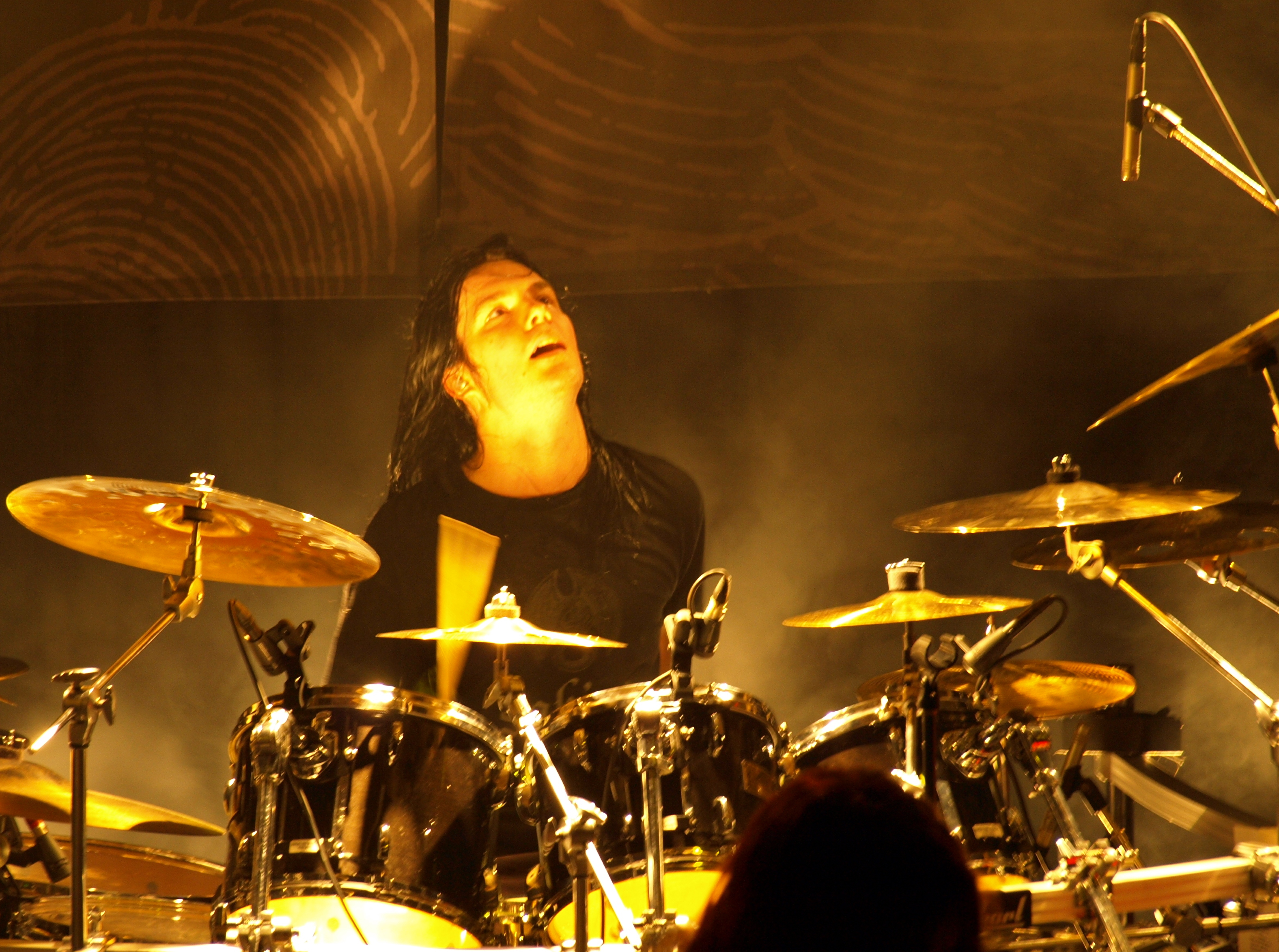 Daniel Erlandsson performing with Arch Enemy.